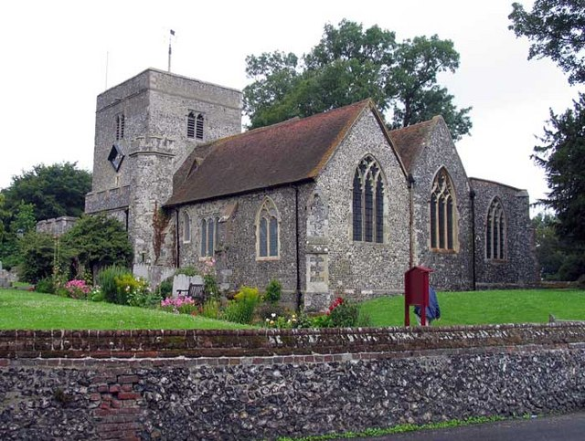 St Peter & St Paul, Borden, Kent